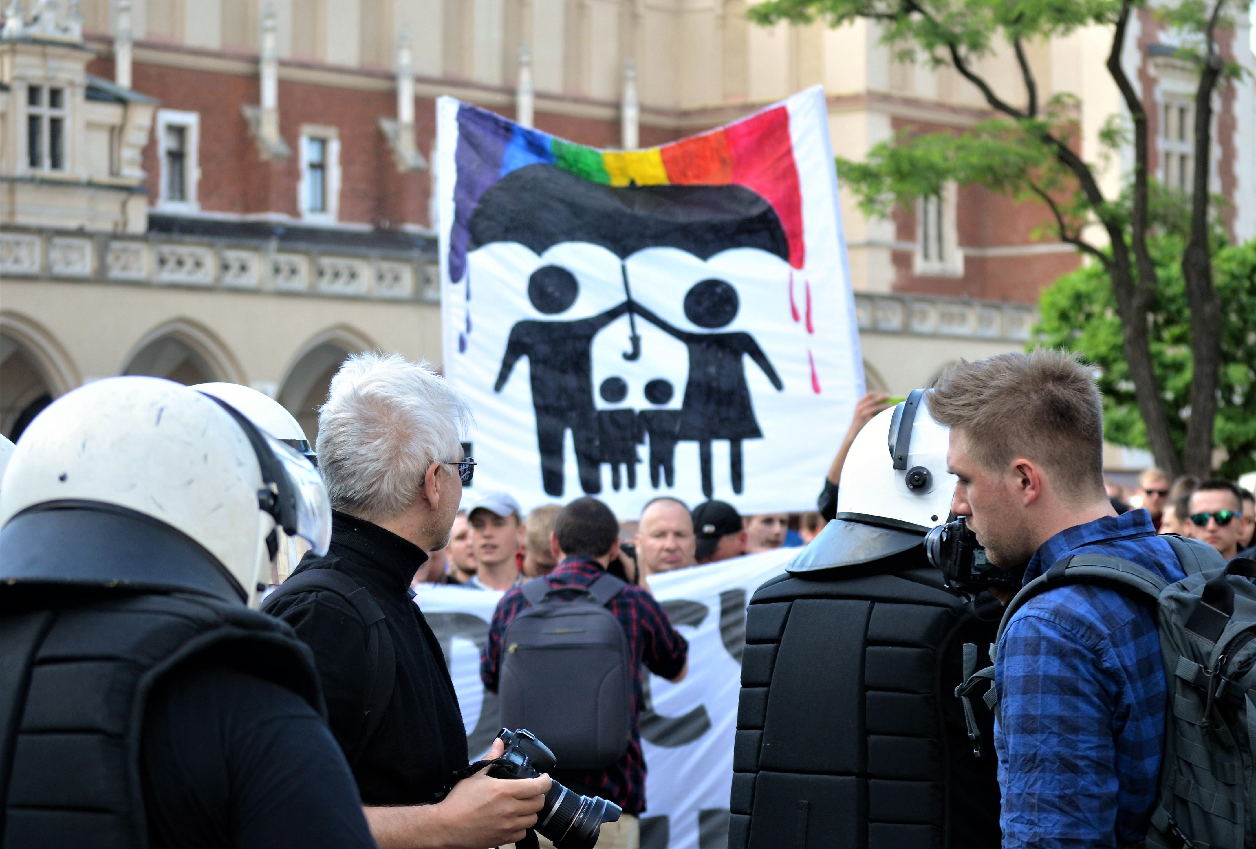 Nationalists, anti-gay protesters during the "Equality March" in Kraków